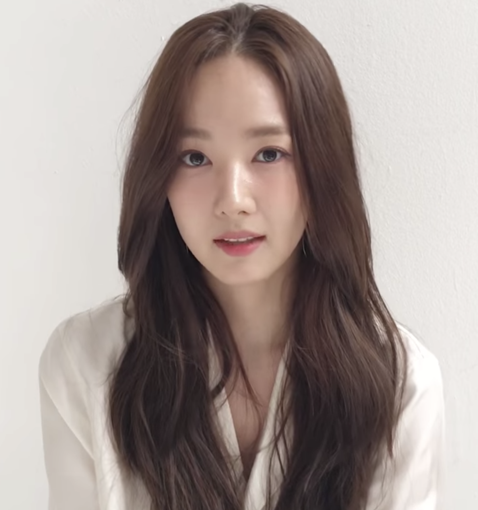 South Korean actress Park Min-young in May 2018